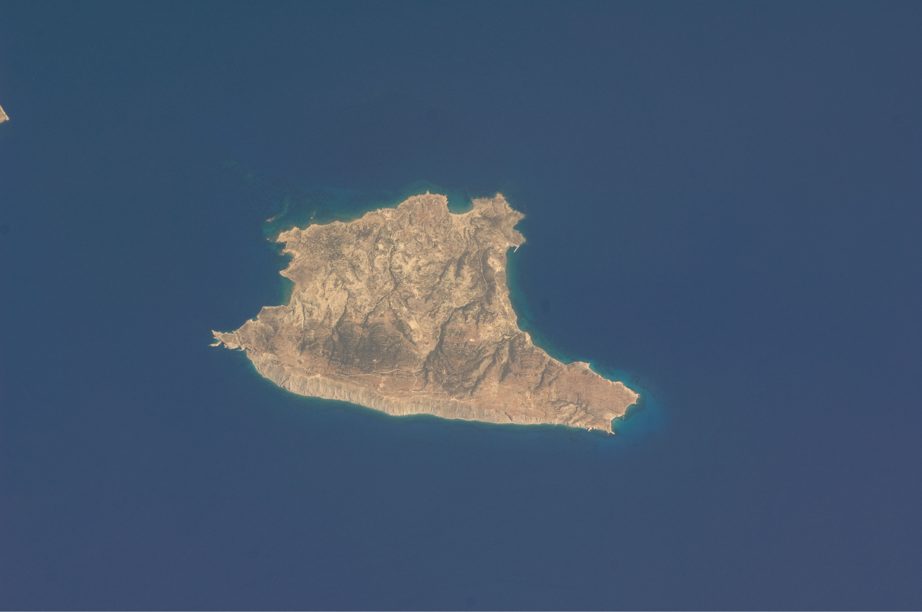 Mission: ISS017 Roll: E Frame: 12893 Mission ID on the Film or image: ISS017 Country or Geographic Name: CRETE Features: GAVDOS ISLAND Center Point Latitude: 34.8 Center Point Longitude: 24.1 (Negative numbers indicate south for latitude and west for longitude) Image Science and Analysis Laboratory, NASA-Johnson Space Center. "The Gateway to Astronaut Photography of Earth." (10/03/2009 17:27:00) . Send questions or comments to the NASA Responsible Official at Curator: Earth Sciences Web Team Notices: Web Accessibility and Policy Notices, NASA Web Privacy Policy